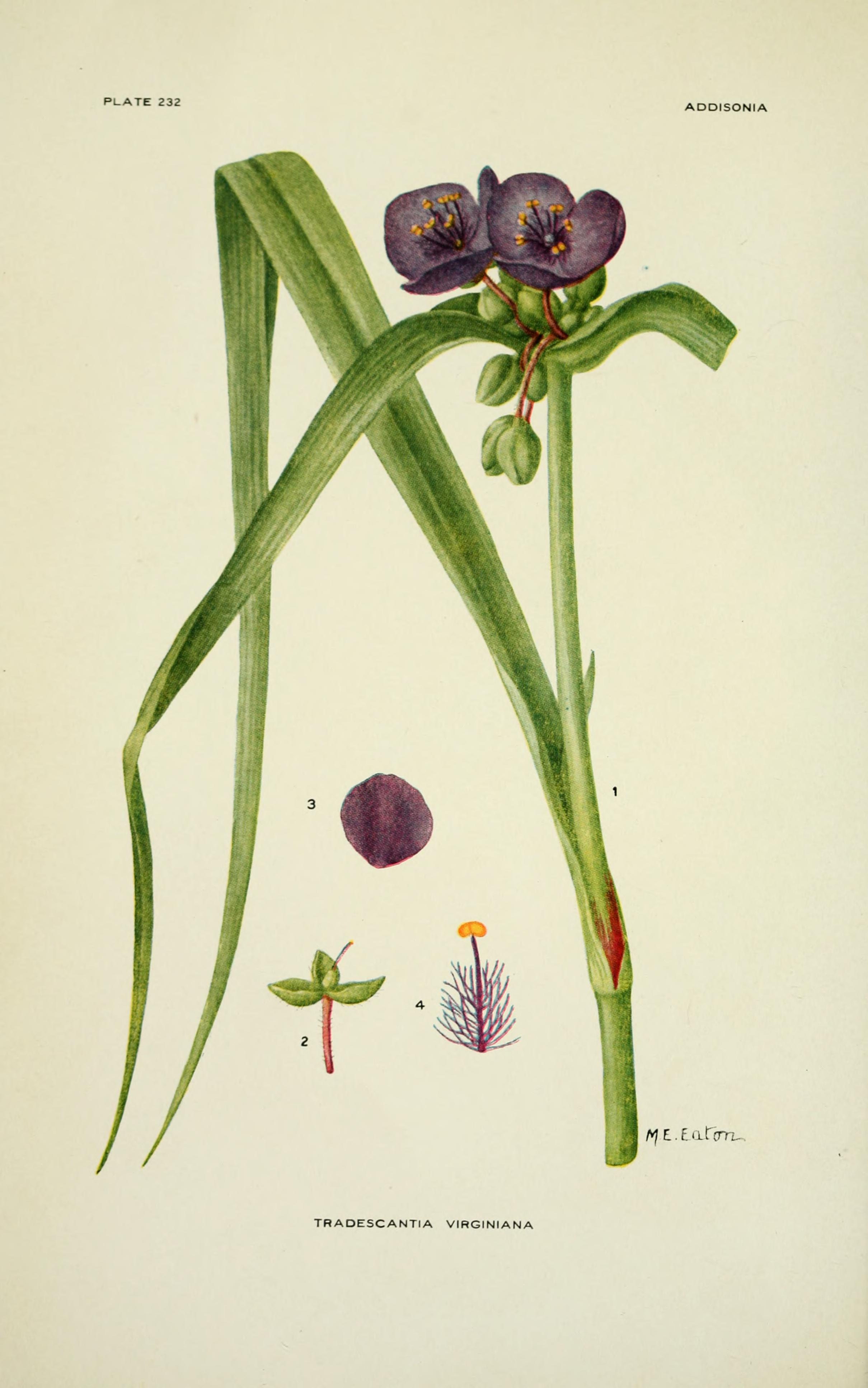 Title: Addisonia : colored illustrations and popular descriptions of plants Year: 1916-(1964) (1910s) Authors: New York Botanical Garden Subjects: Plants; Plants -- United States; Plants Publisher: New York : New York Botanical Garden Text Appearing Before Image: PLATE 232 ADDISONIA Text Appearing After Image: tyE.Eu.rtnx.. TRADESCANTIA VIRGINIANA